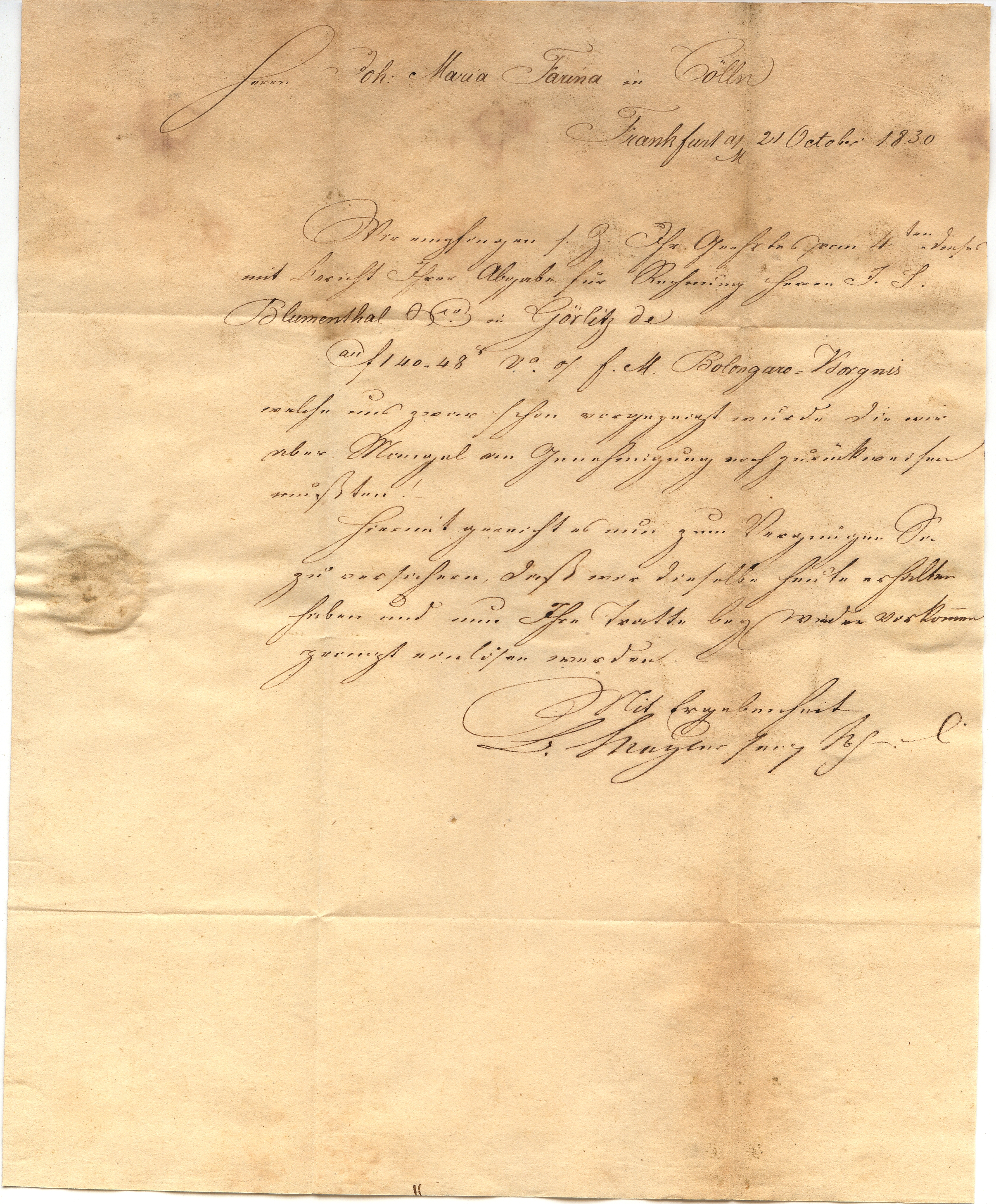 Letter Metzler to Farina in Cologne 1830